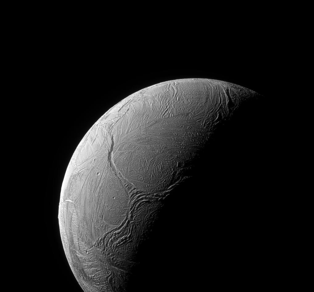 PIA18366: Y Marks the Spot A sinuous feature snakes northward from Enceladus' south pole like a giant tentacle. This feature, which stretches from the terminator near center, toward upper left, is actually tectonic in nature, created by stresses in Enceladus' icy shell. Geologists call features like these on Enceladus (313 miles or 504 kilometers across) "Y-shaped discontinuities." These are thought to arise when surface material attempts to push northward, compressing or displacing existing ice along the way. Such features are also believed to be relatively young based on their lack of impact craters -- a reminder of how surprisingly geologically active Enceladus is. This view looks towards the trailing hemisphere of Enceladus. North is up. The image was taken in visible green light with the Cassini spacecraft narrow-angle camera on Feb. 15, 2016. The view was obtained at a distance of approximately 60,000 miles (100,000 kilometers) from Enceladus. Image scale is 1,900 feet (580 meters) per pixel. The Cassini mission is a cooperative project of NASA, ESA (the European Space Agency) and the Italian Space Agency. The Jet Propulsion Laboratory, a division of the California Institute of Technology in Pasadena, manages the mission for NASA's Science Mission Directorate, Washington. The Cassini orbiter and its two onboard cameras were designed, developed and assembled at JPL. The imaging operations center is based at the Space Science Institute in Boulder, Colorado. For more information about the Cassini-Huygens mission visit and The Cassini imaging team homepage is at